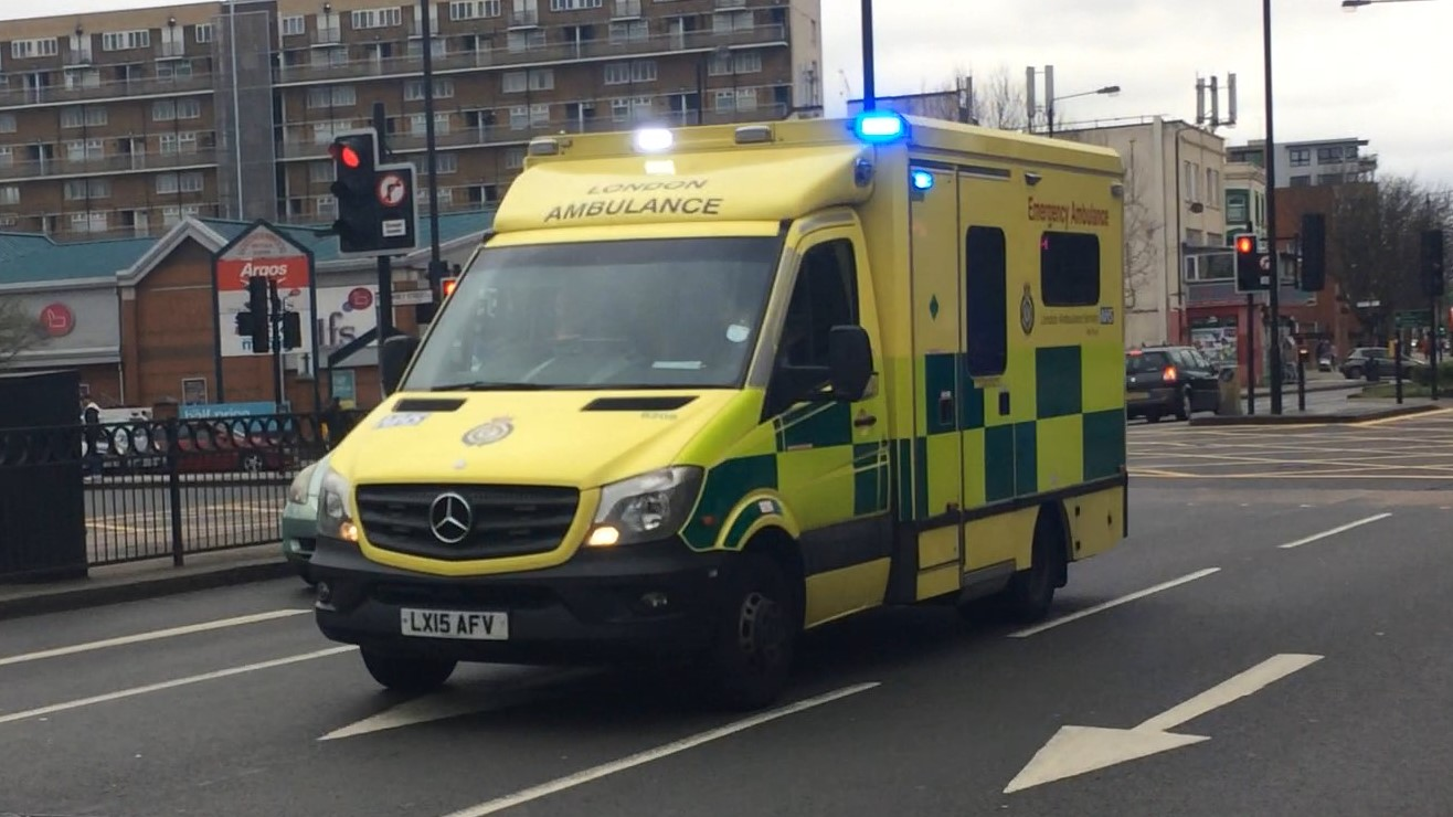 London Ambulance Service Emergency Ambulance